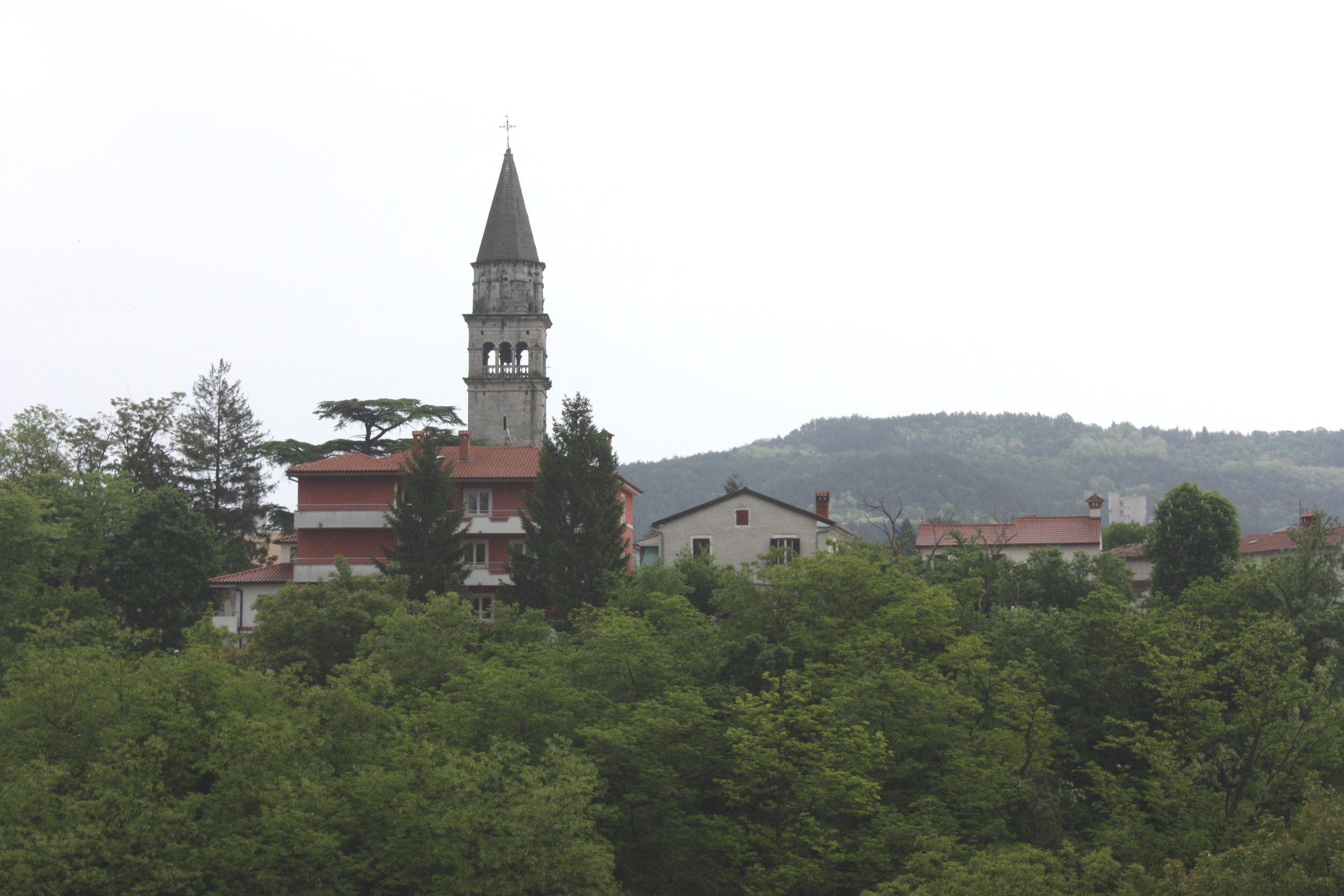 Pazin, view to the abbey St. Nicholas